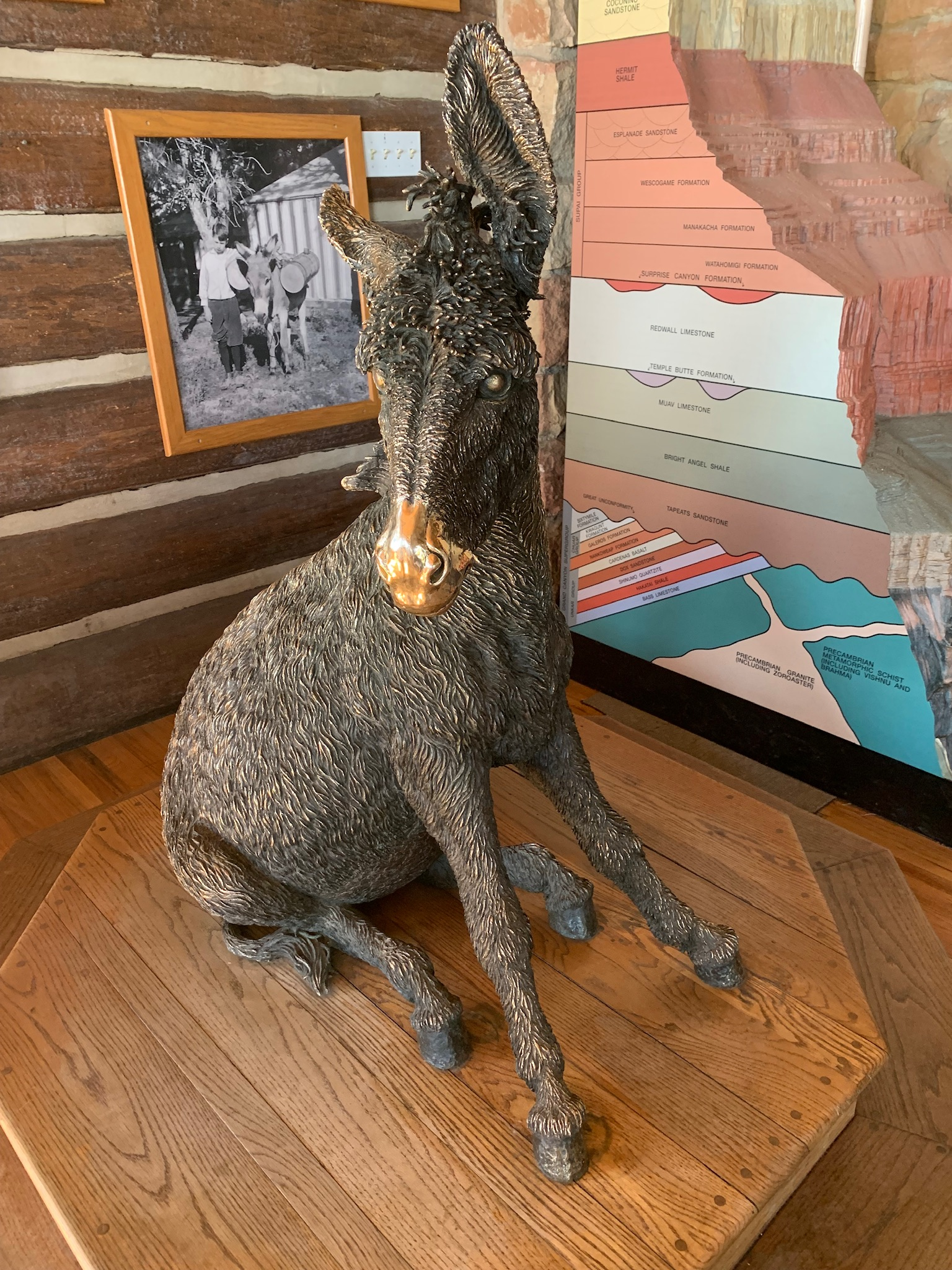 Bronze statue of Brighty of the Grand Canyon, found in the Lodge at the North Rim.